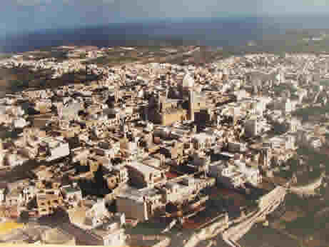 Aerial View of Nadur (Gozo)